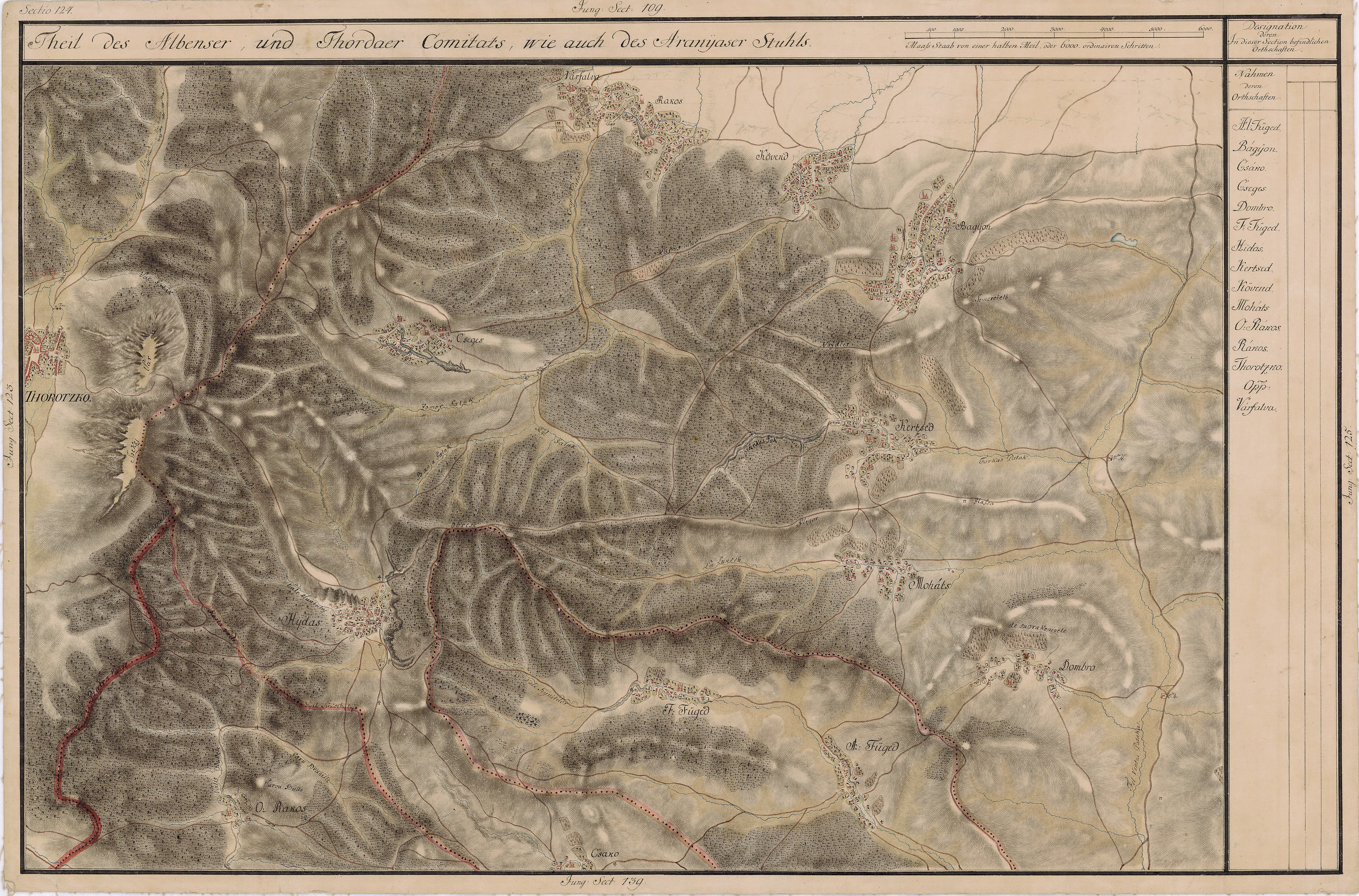 Grand Duchy of Transylvania, 1769-1773. Josephinische Landaufnahme pg.124